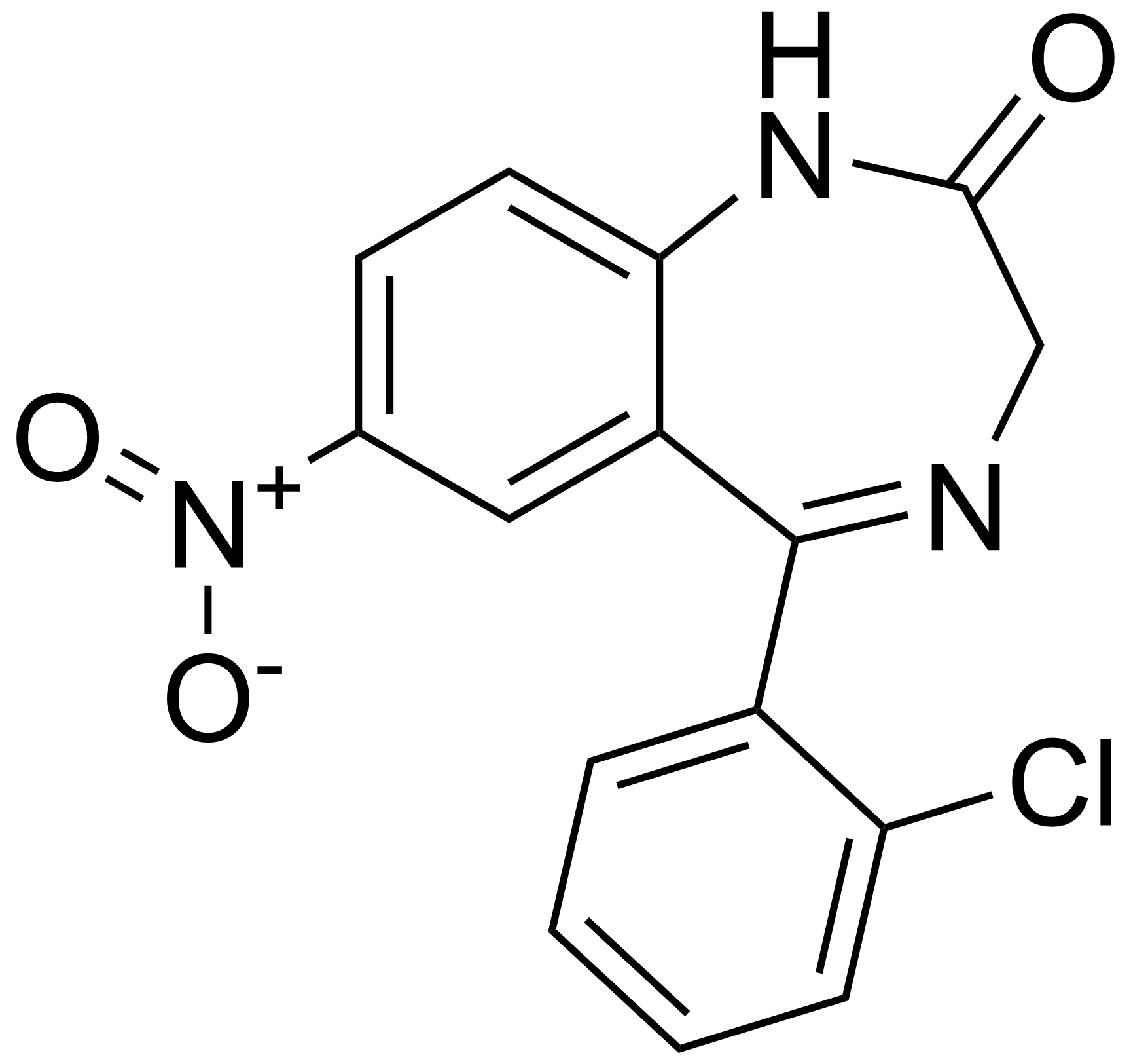 structure of Clonazepam